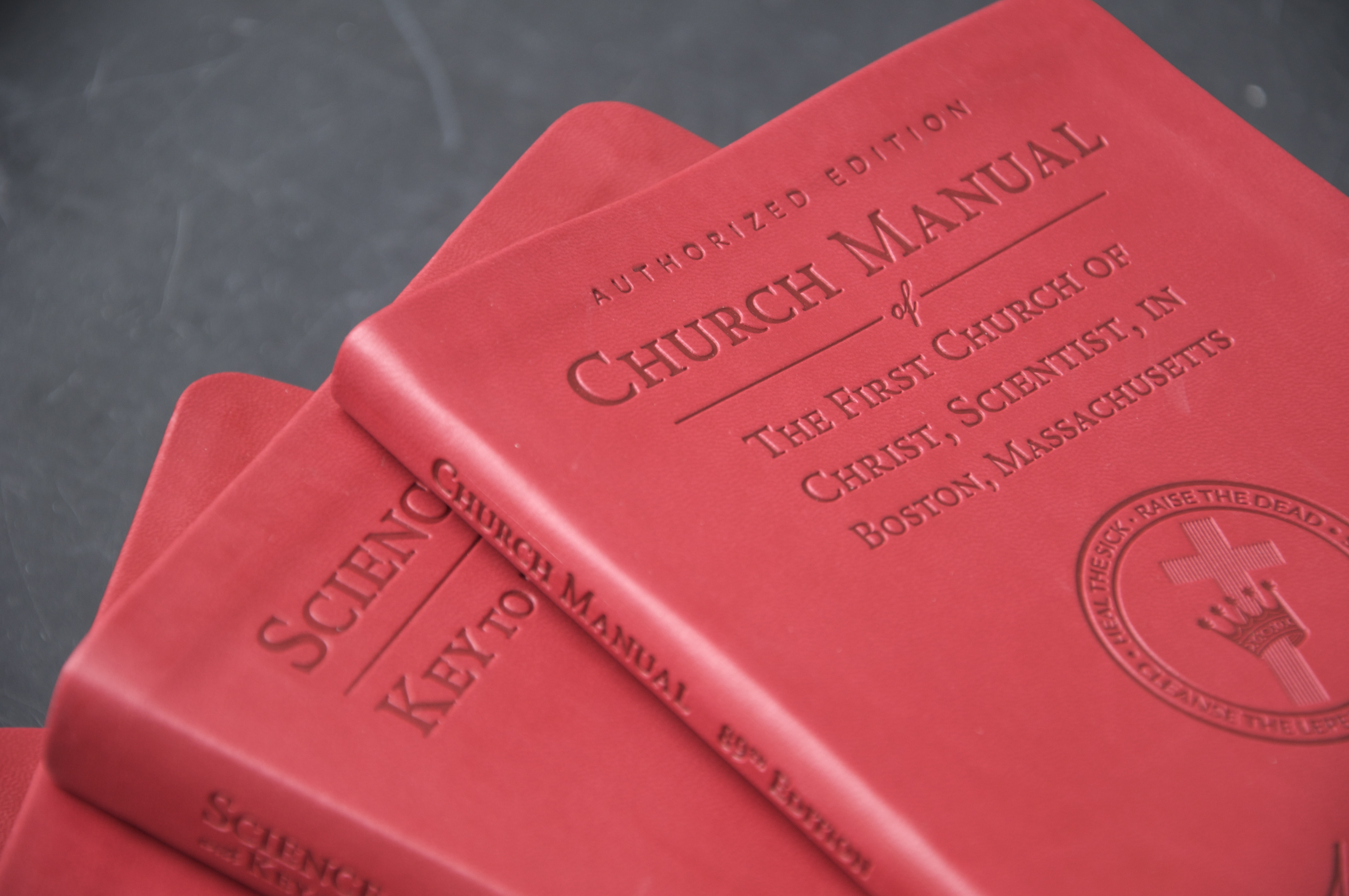 Manual of the Mother Church and, underneath, Science and Health, both by Mary Baker Eddy, founder of Christian Science. The books were first published in 1895 and 1875 in the United States.